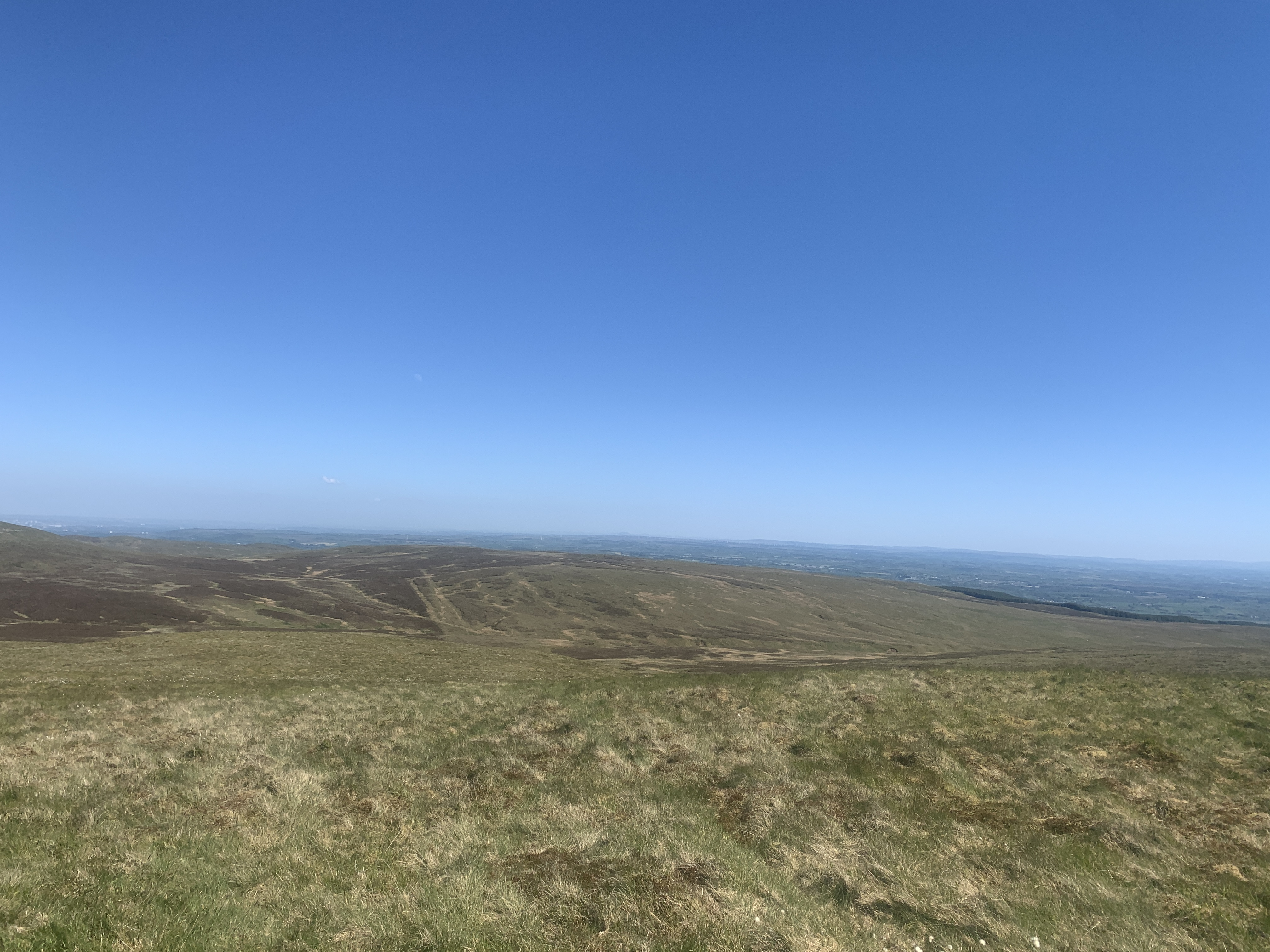 View from the summit of Irish Law